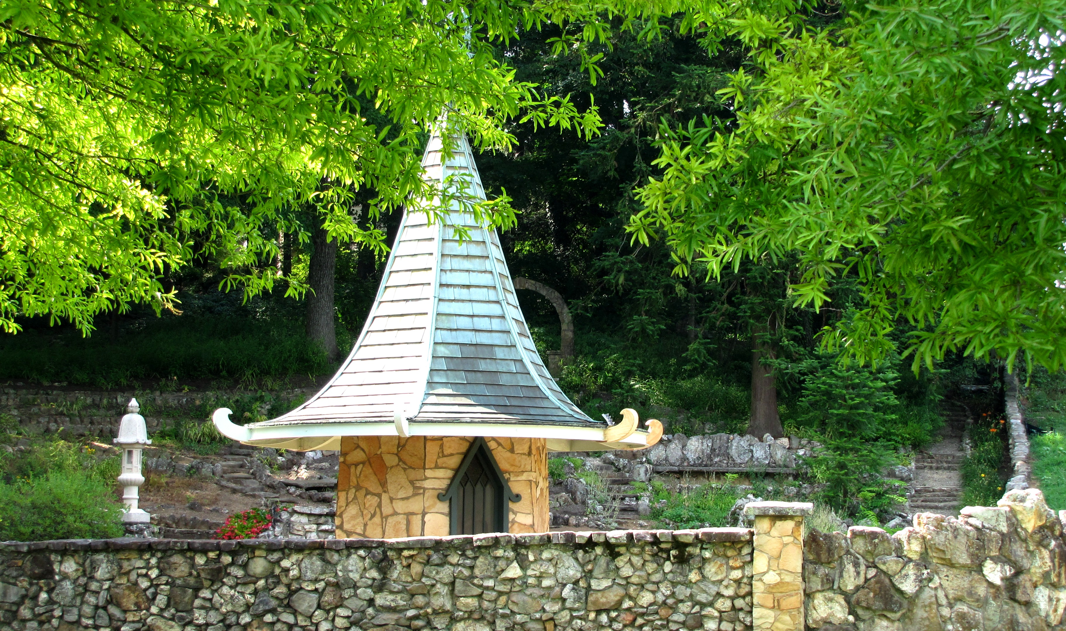 The Savage Garden in the Fountain City community of Knoxville, Tennessee, USA. This Japanese-style garden was established circa 1915 by Knoxville businessman Arthur Savage (1872–1946), and is now listed on the National Register of Historic Places.